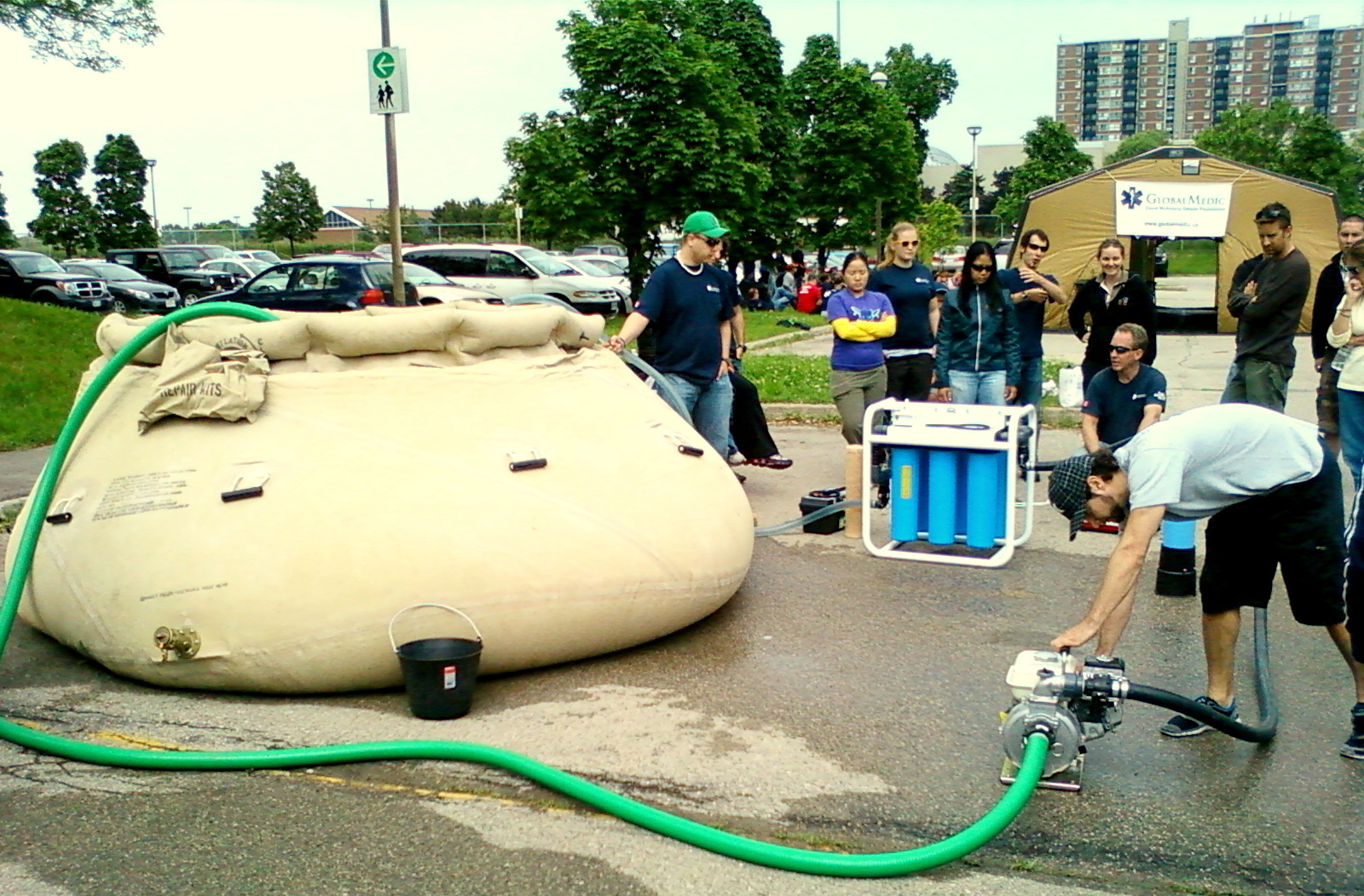 GlobalMedic trainees practicing on a Nomad water purification system -Training Day, Toronto, June 2011. For training purposes, water was being cycled out of and then back into a large canvas field deployable water reservoir. Trainees practiced assembling, servicing and operating the various system components.